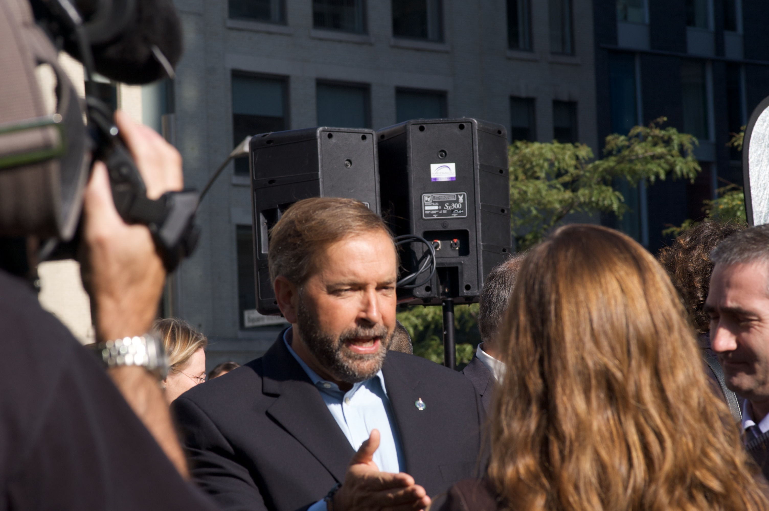 Thomas Mulcair during the 2008 Canadian federal election